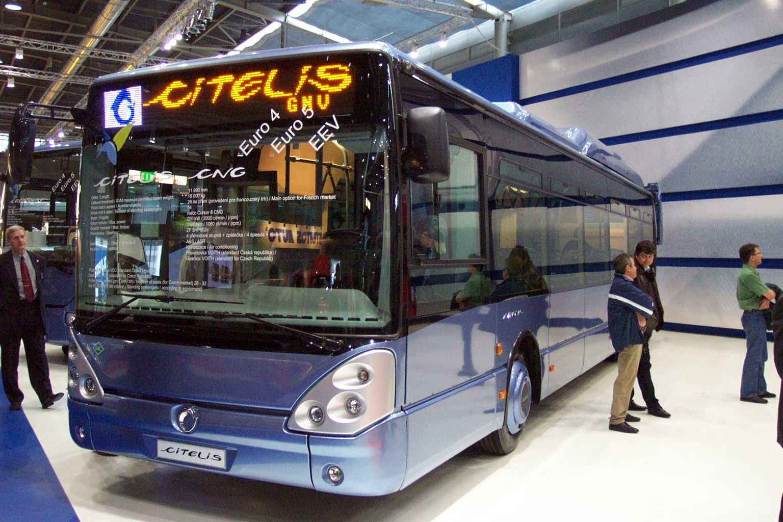 Bus type Irisbus Citelis at Autotec fair in Brno - Autobus typu Irisbus Citelis na veletrhu Autotec v Brně